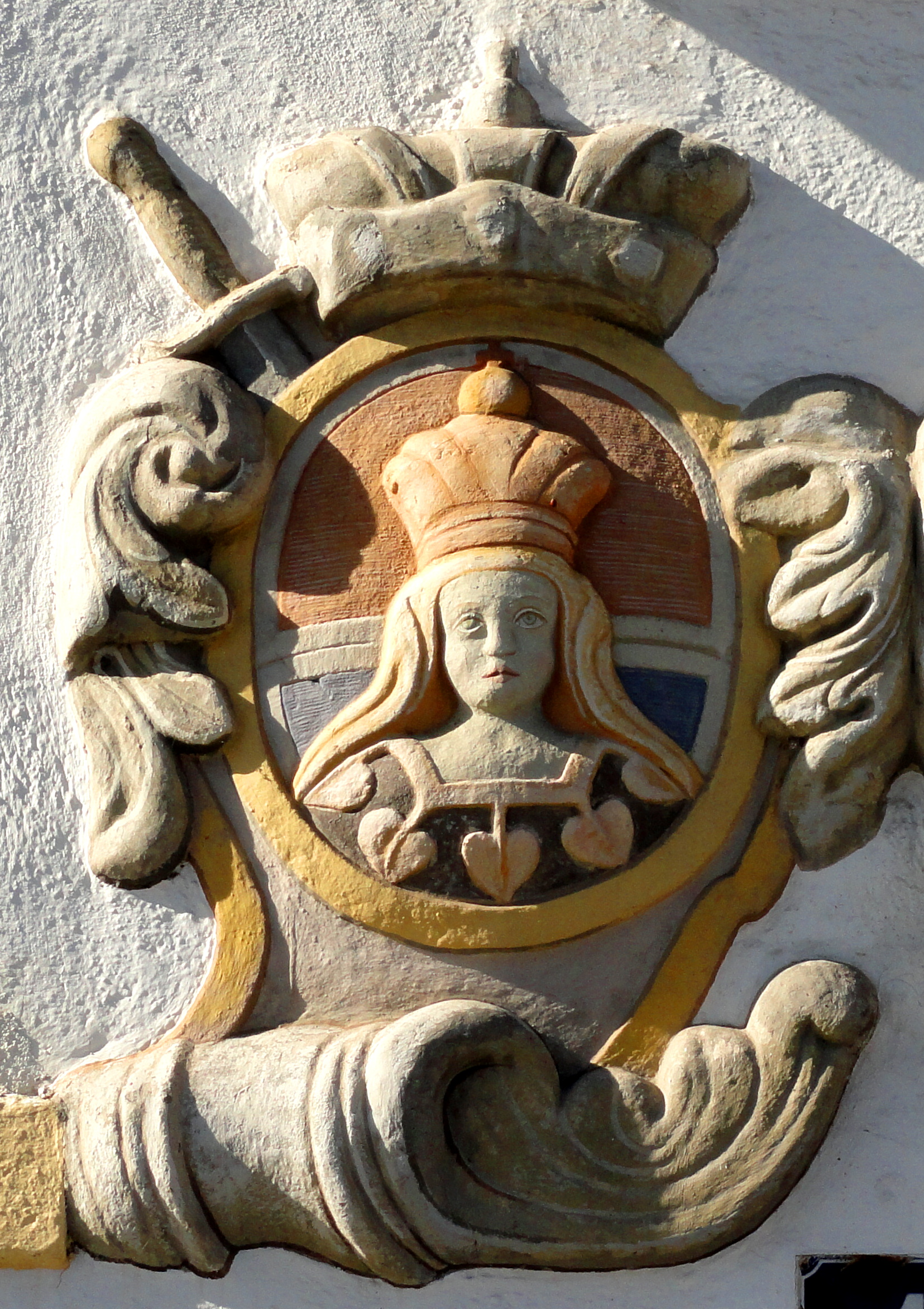 Coat of arms of the Imperial Abbey of Kempten displayed above the main entrance of the former abbey's granary. The coat of arms shows Queen Hildegard, wife of Charlemagne and alleged founder of the abbey.